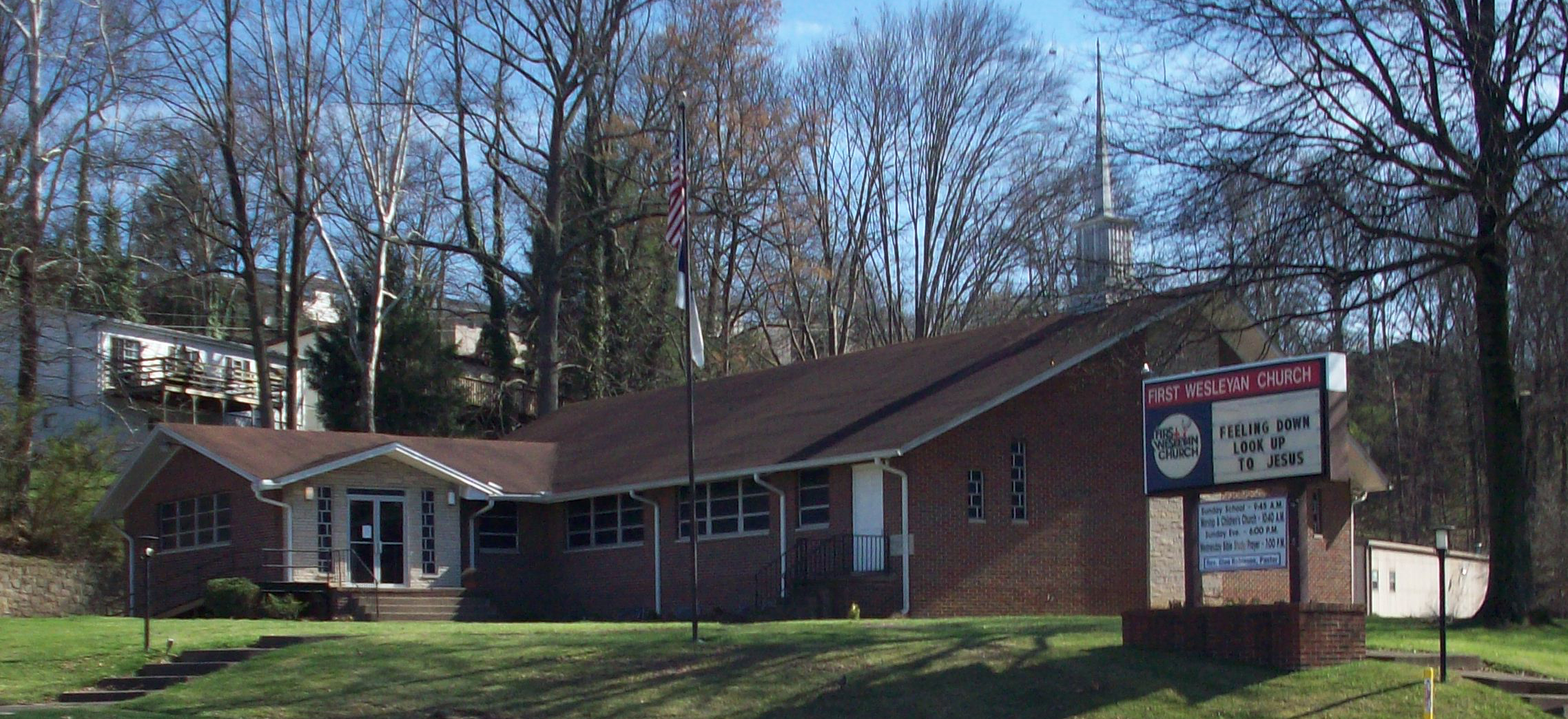 Photo of the First Wesleyan Church of Huntington, West Virginia. The photo was taken from Washington Blvd.